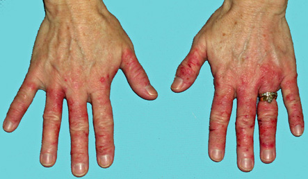 An example of a hypersensitivity reaction on the hands from the use of topical anaesthesia.